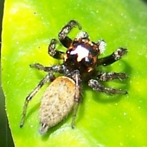 Thiodina hespera. Male. Size ~ 6 mm.